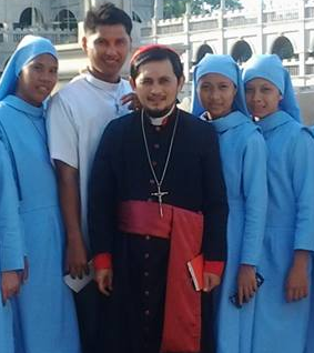 Monsignor Allan Amoguis in the Philippines